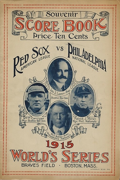 A program from the 1915 World Series